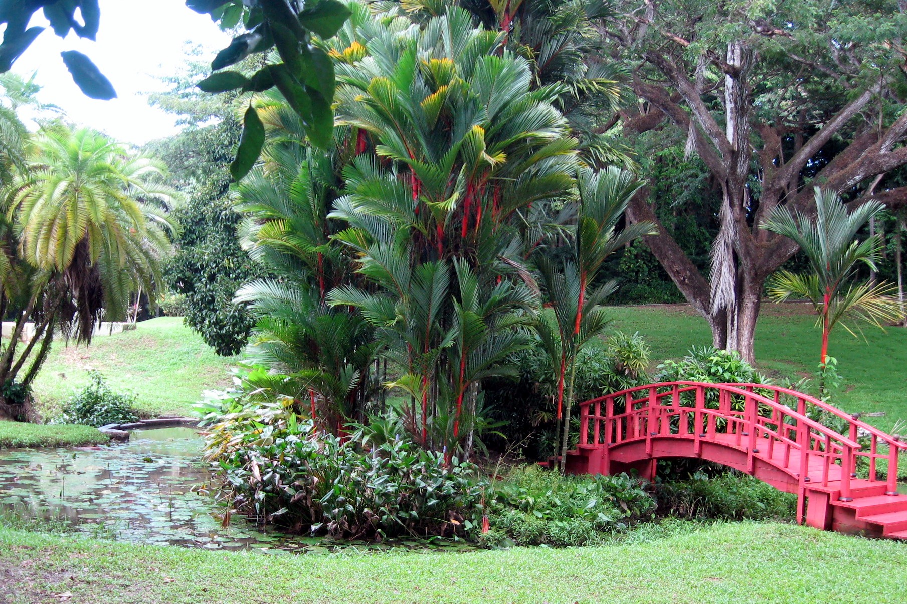 Oriental Garden @ the University of Puerto Rico Botanical Gardens - Cyrtostachys renda palms